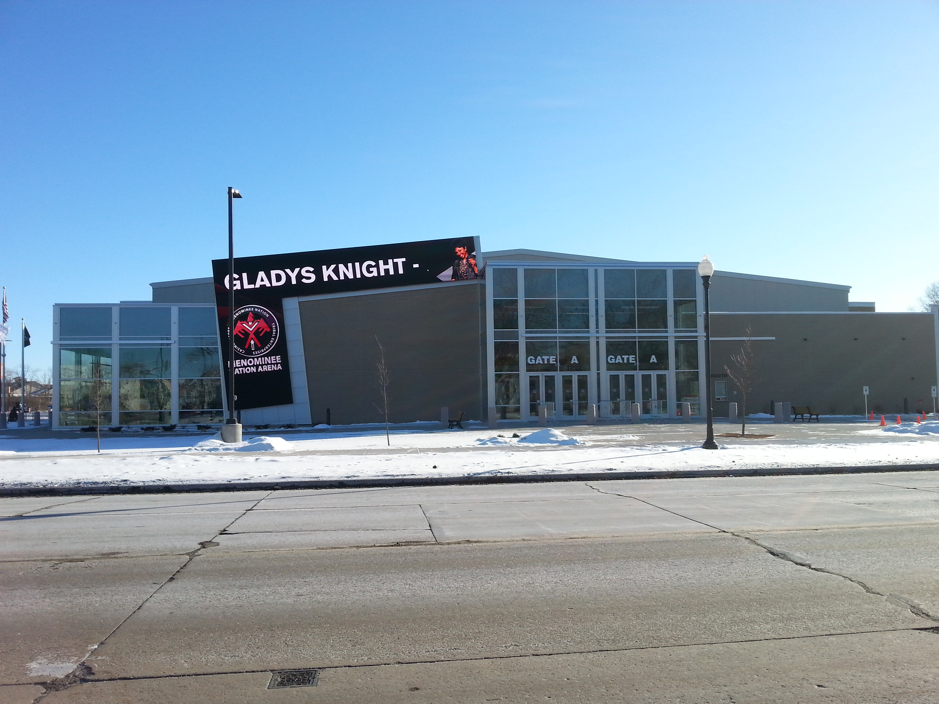 The Menominee Nation Arena a couple months after completion.